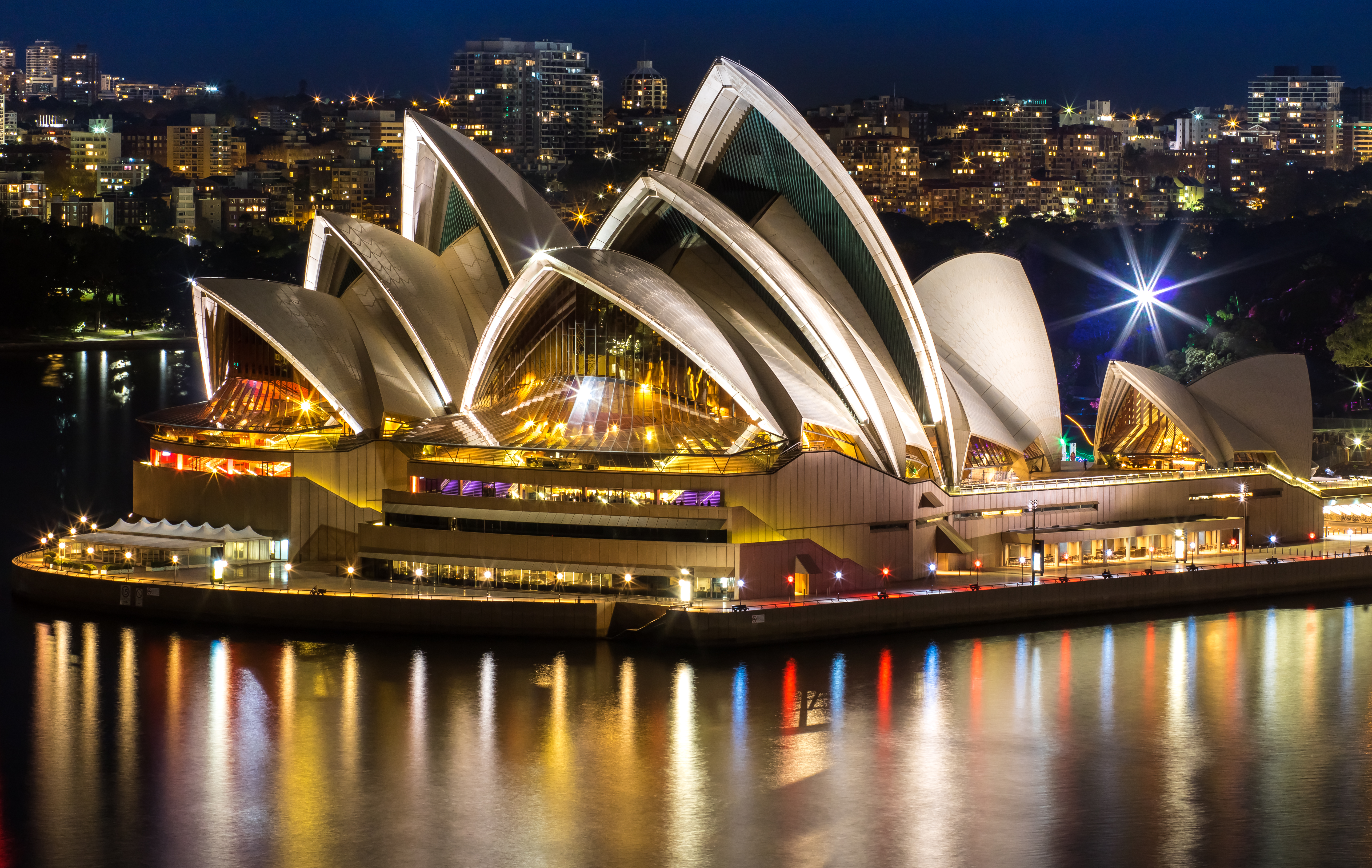 Sydney Opera House at night.